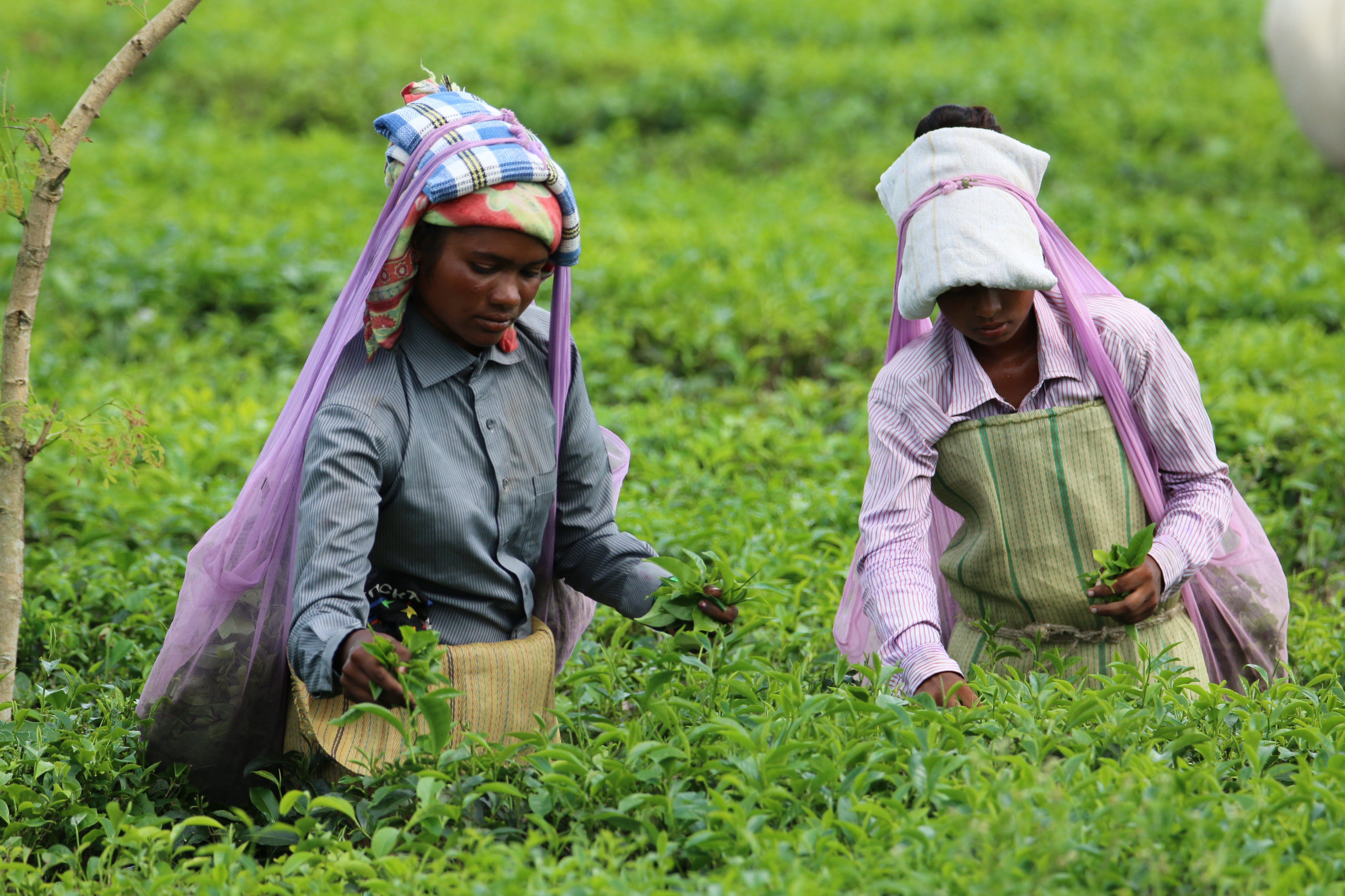 Lady workers working in a Tea Garden of Dooars. Tea Garden contributing a major portion of GDP in North Bengal.